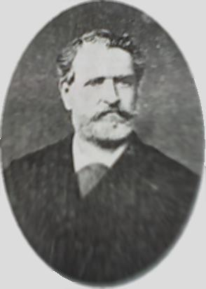 Pedro Benoit, famous argentine architect and Mayor of La Plata.